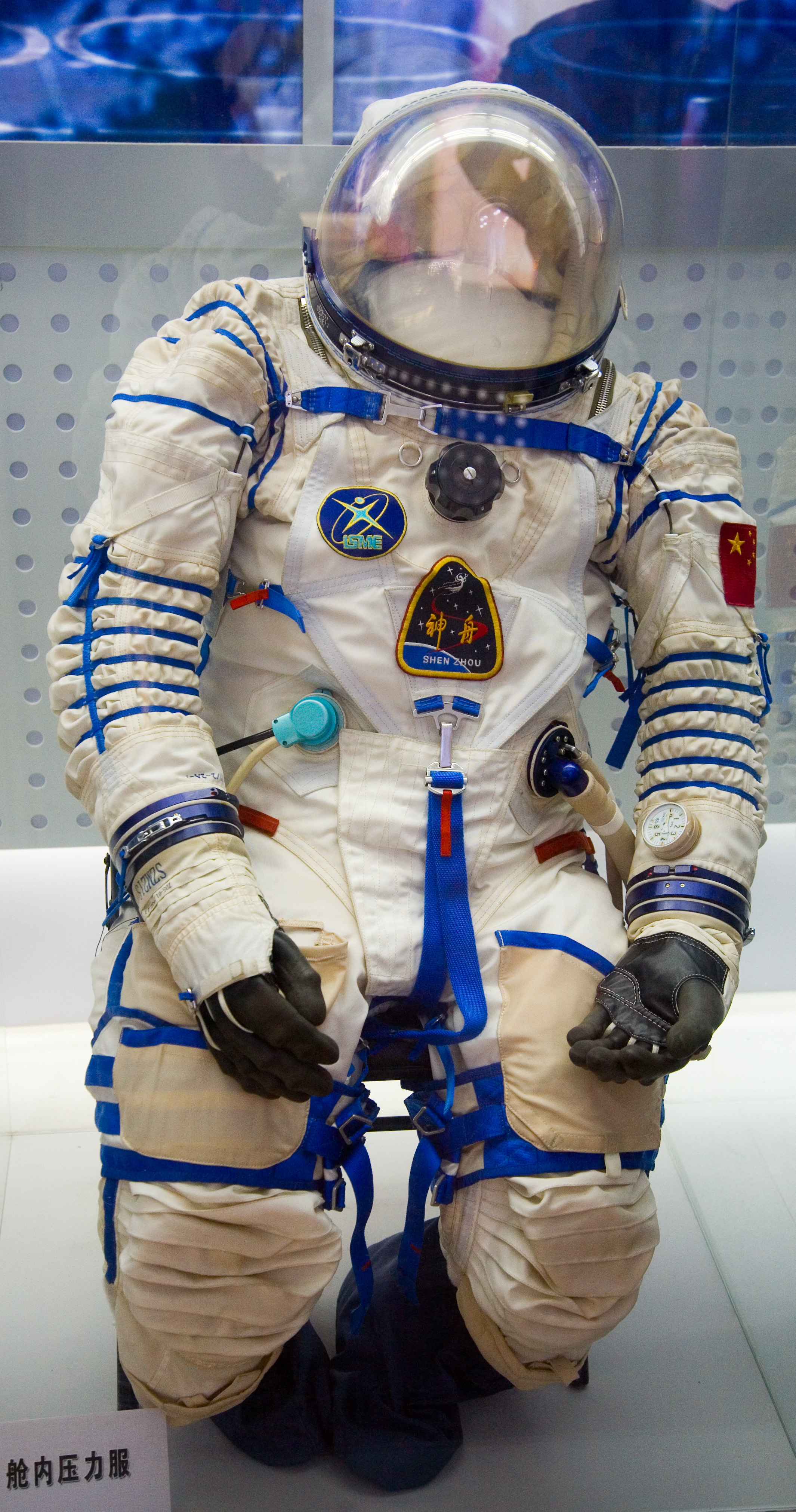 A Spacesuit worn on the Shenzhou 5, Chinese space mission.